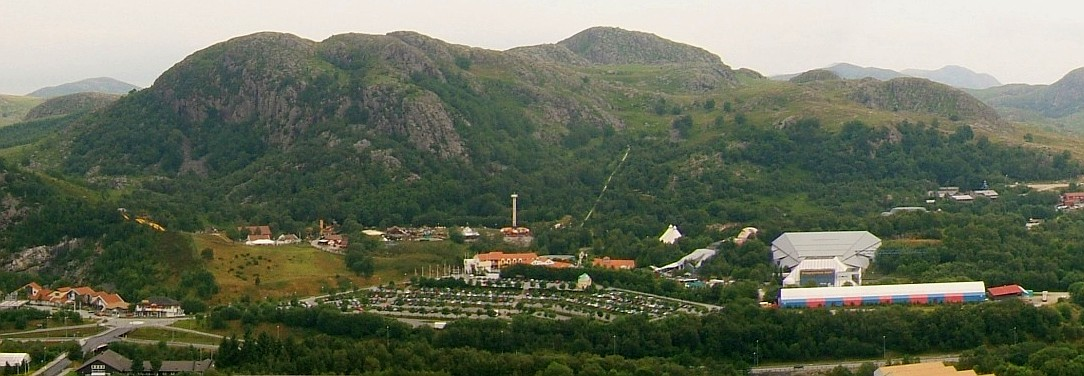 I took this photo myself summer 2005.